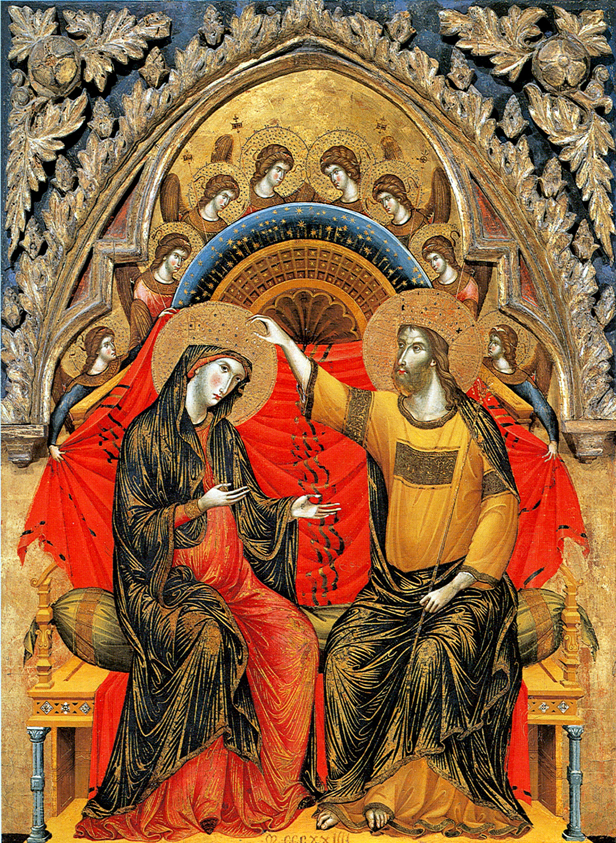 Paolo Veneziano, Coronation of the Virgin, 1324 Panel, 100 x 78 cm Washington, National Gallery of Art.